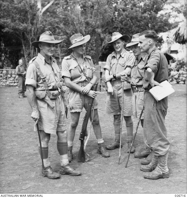 PAPUA. 1942-09. IN A FORWARD AREA ON THE TRACK TO KOKODA. LEFT TO RIGHT: BRIGADIER ARNOLD W. POTTS DSO MC (COMMANDING 21ST INFANTRY BRIGADE), CORPORAL RONALD SIMPSON (HIS DRIVER), WX3254 CAPTAIN JAMES PETER KEYNON (KEN) MURDOCH (STAFF CAPTAIN LEARNER, 21ST BRIGADE), LIEUTENANT A. L. SALOM (LIAISON OFFICER, 30TH BRIGADE), CAPTAIN C. L. THOMPSON (ADJUTANT 2/14TH BATTALION).